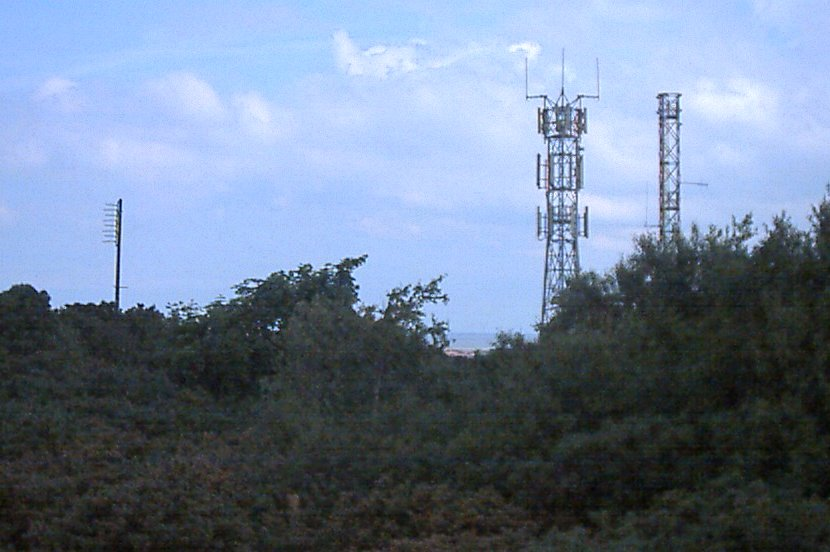 West Kirby television relay mast on the extreme left. Nearby, to the right are various other transmitting antennas, for mobile phone use etc..